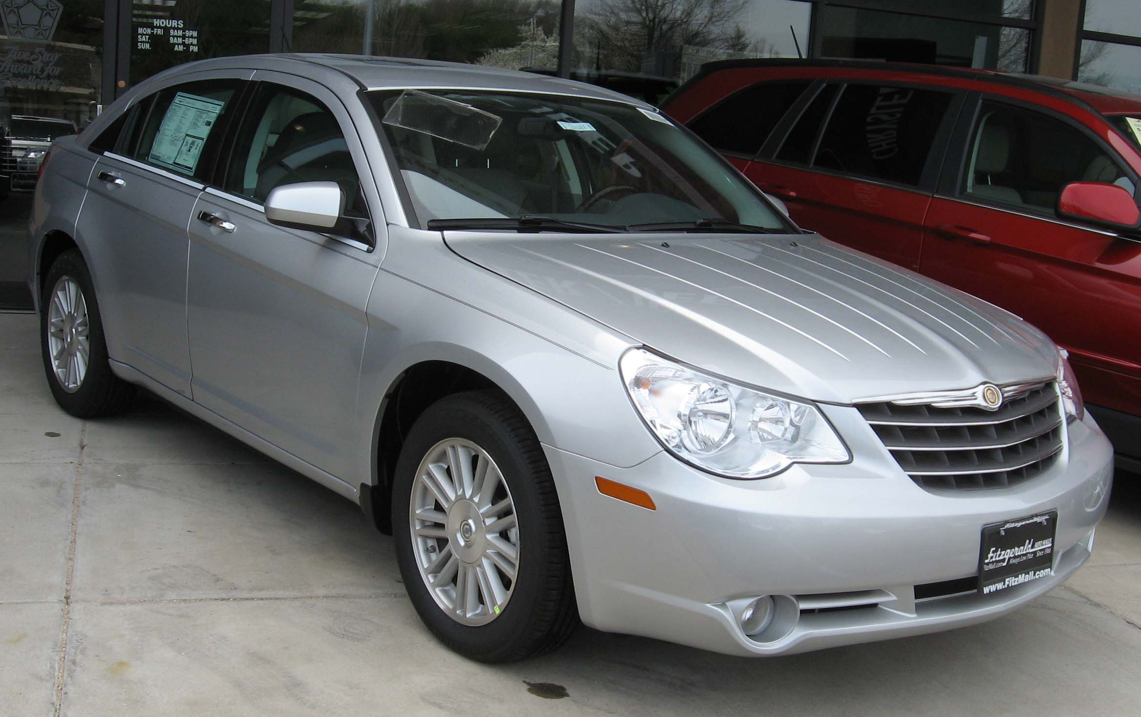 2007 Chrysler Sebring photographed in USA.